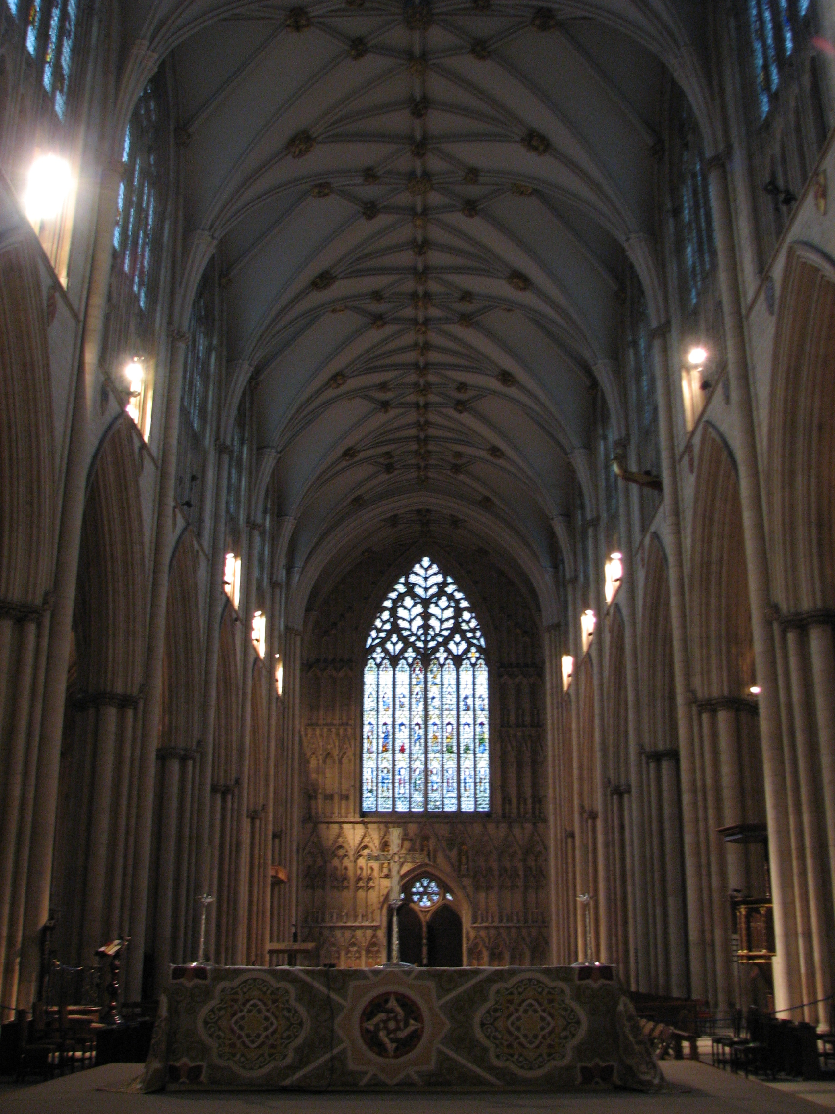 York Minster West Rose